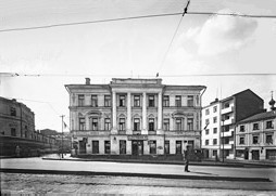 Moscow, Nikitsky Vorota Square. Collection by Artjem Zadikjan, approx. 1920